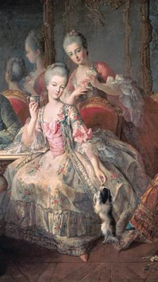 The Princess of Lamballe and Mademoiselle de Penthièvre by Jean Baptiste Charpentier